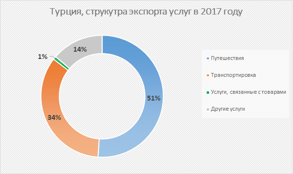 Turkey exports sturcture of services